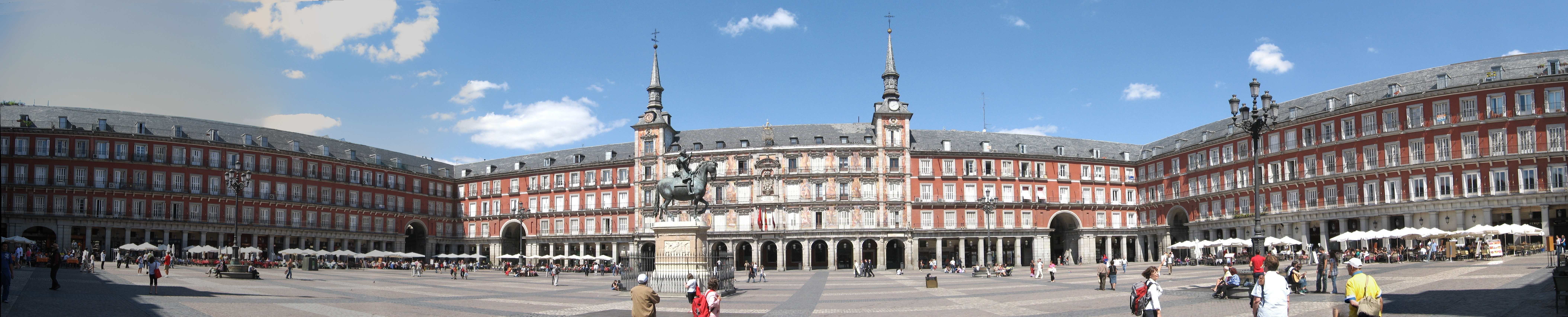 Madrid's Plaza Mayor pano